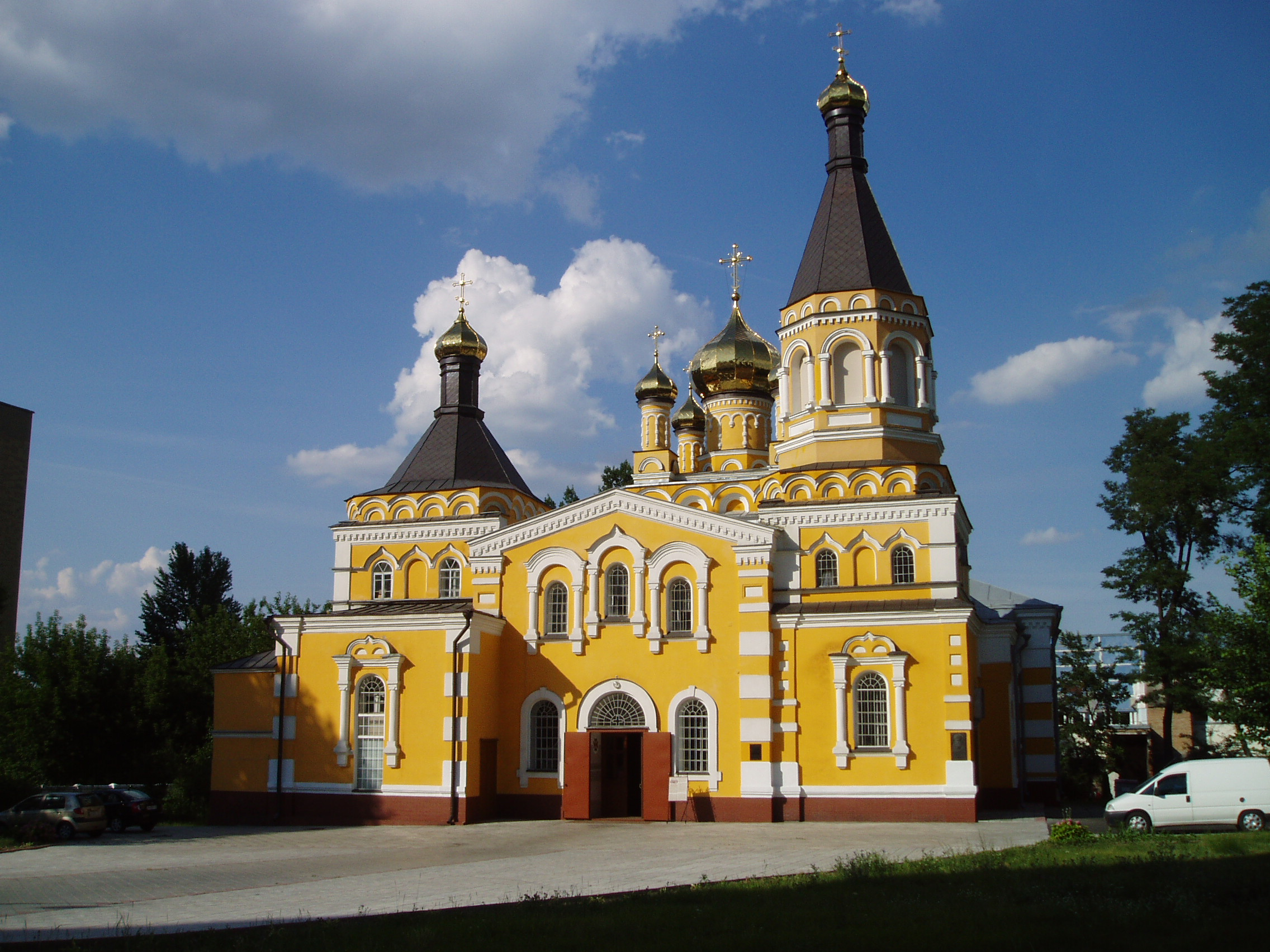 A photo of Pokrova church in Kyiv, where metropolitan Vasyl (Lypkivskiy) served as a priest from 1905 till 1919. The church was built in 1897